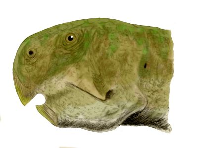 Head of Psittacosaurus ordosensis, one of the numerous species of Psittacosaur from the Early Cretaceous of China, pencil drawing